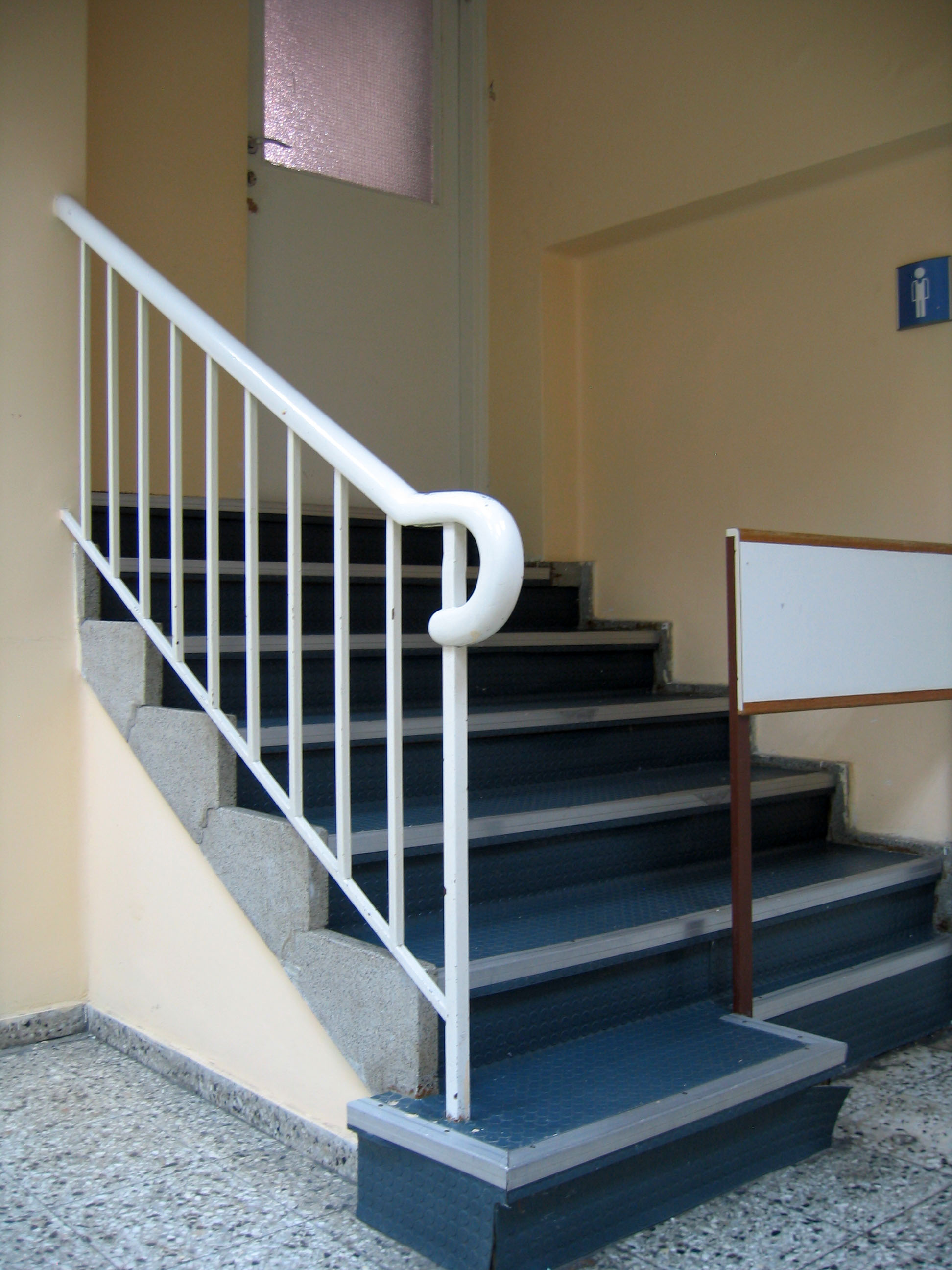 Zamenhof clinic